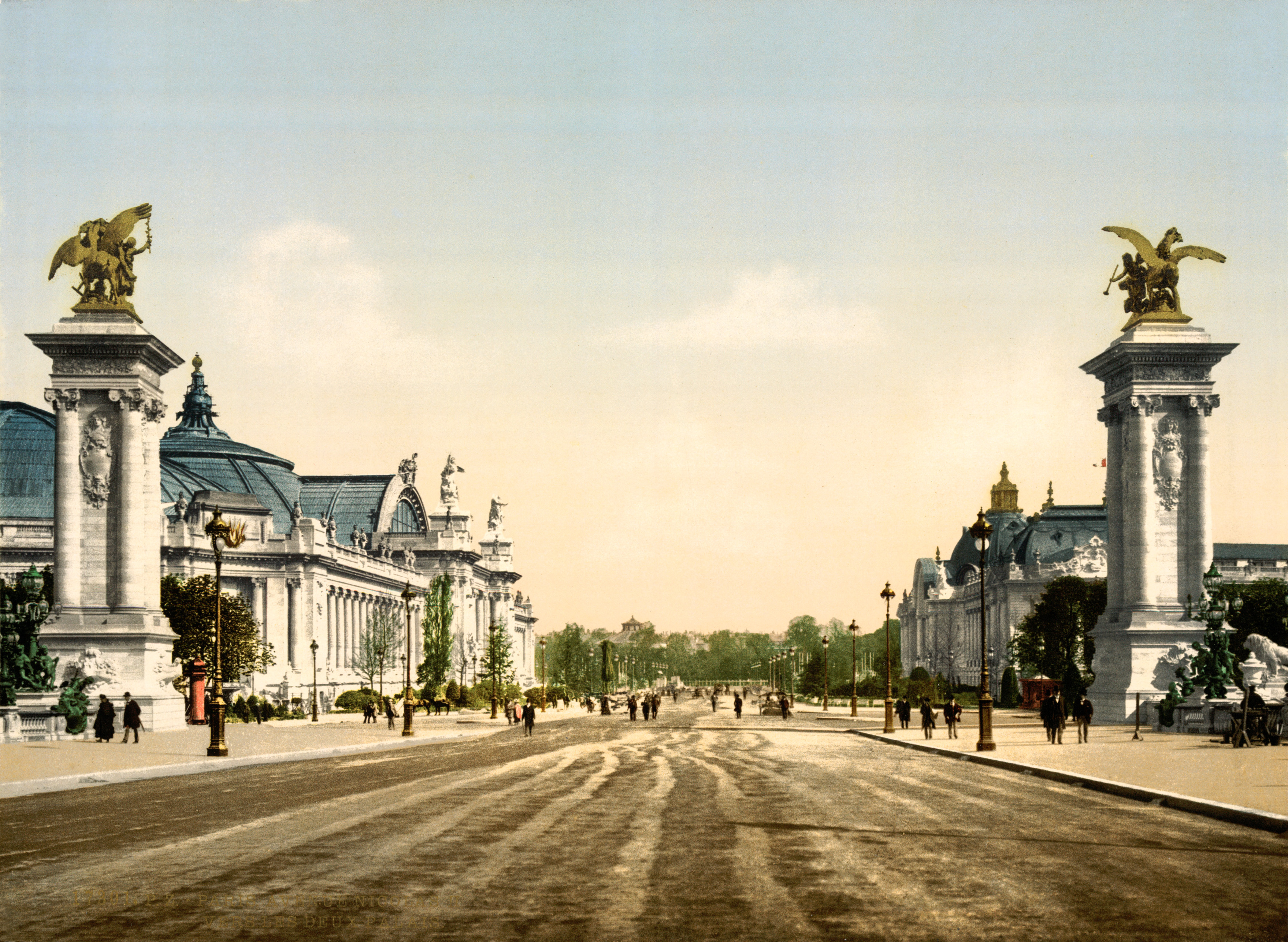 Grand Palais and Petit Palais, Exposition Universal, 1900, Paris, France.